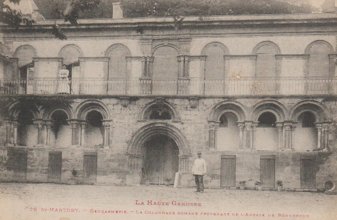 Bonnefont Abbey, Chapter House at St-Martory